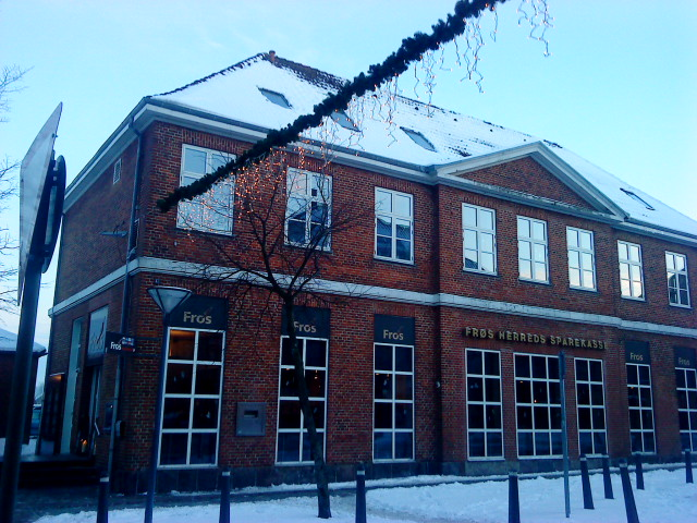 Frøs Vejen